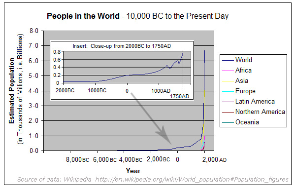 A graphical representation of tabulated data (from "Estimated world population at various dates") on Population Figures Notes: (a) "At the dawn of agriculture, about 8000 B.C., the population of the world was approximately 5 million": World Population Clock). (a) Minimal population for many thousands of years. (b) Steady growth began around 1000 BC which then levelled off (or alternatively peaked) around the year 0. (c) Trend for next 800 - 900 years from around 800 AD onwards was steady growth though with major disruption from frequent plague (most notably the Black Death from 1350 AD - 1400 AD). (Please see notes regarding the source data and method used for plotting the resulting population dips caused by both the Black Death and later plagues). (d) Rate of growth increases significantly from around 1700 AD (coinciding with the start of the Industrial Revolution). (e) Dramatic increase in rate of growth since 1950 to approx. 6.7 billion at present and forecast to continue to some 9 billion by 2040.